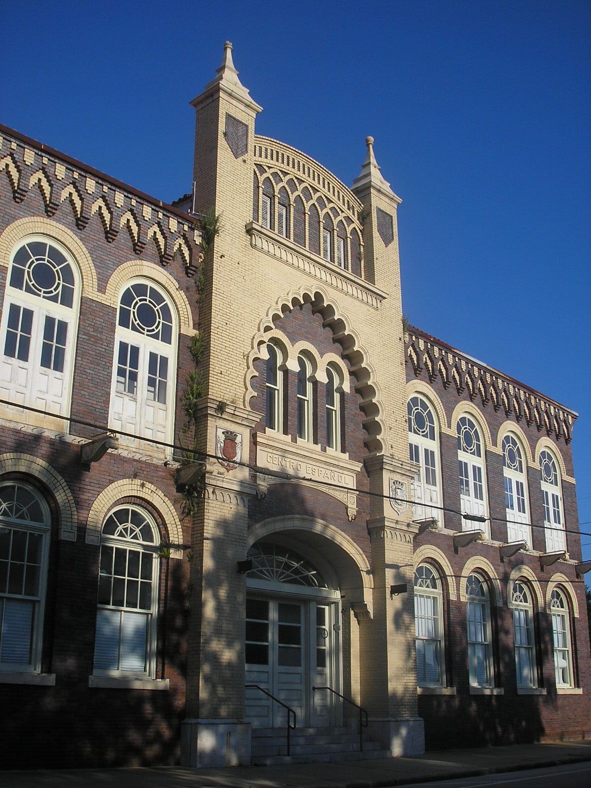 El Centro Espanol building, West Tampa, Tampa, Florida